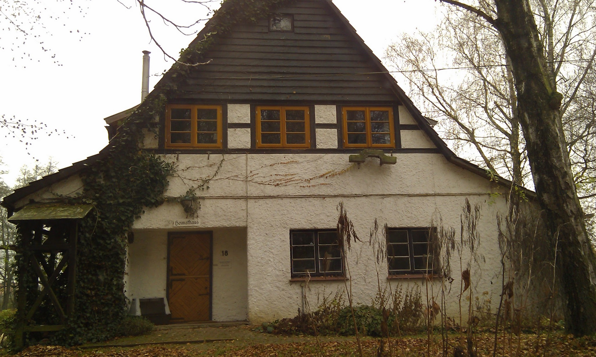 in Bünde, District of Herford, North Rhine-Westphalia, Germany.